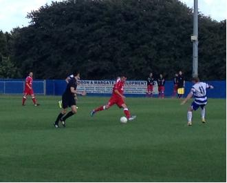 Margate F.C. vs Leiston F.C. in September 2013.